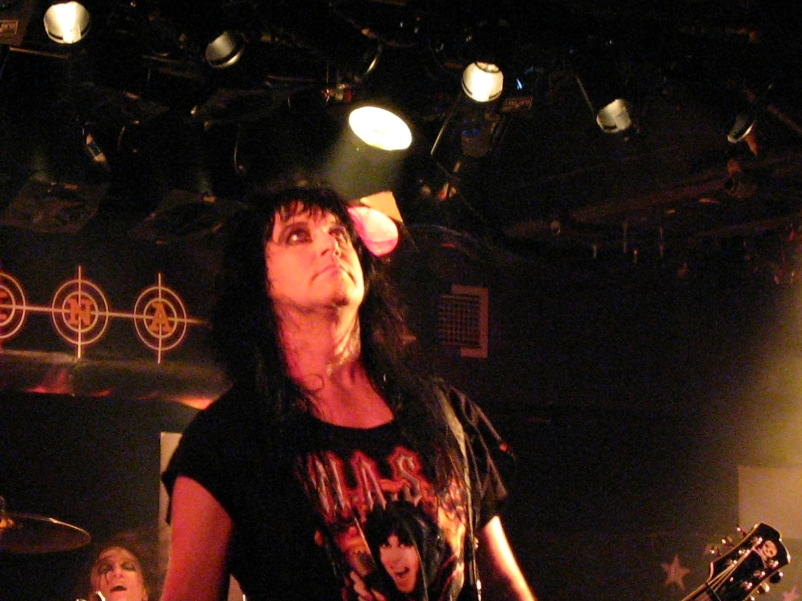 Blackie Lawless. Wasp. The Waterfront, Norwich, 2006-11-16.